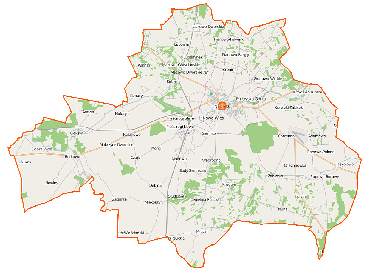 Map of Gmina Nasielsk, PolandThis map of Nasielsk (gmina) was created from OpenStreetMap project data, collected by the community. This map may be incomplete, and may contain errors. Don't rely solely on it for navigation.